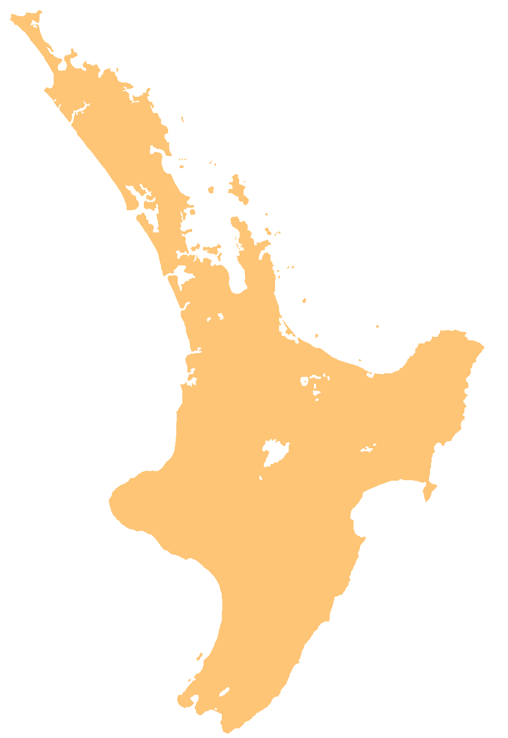 template map of New Zealand's North Island